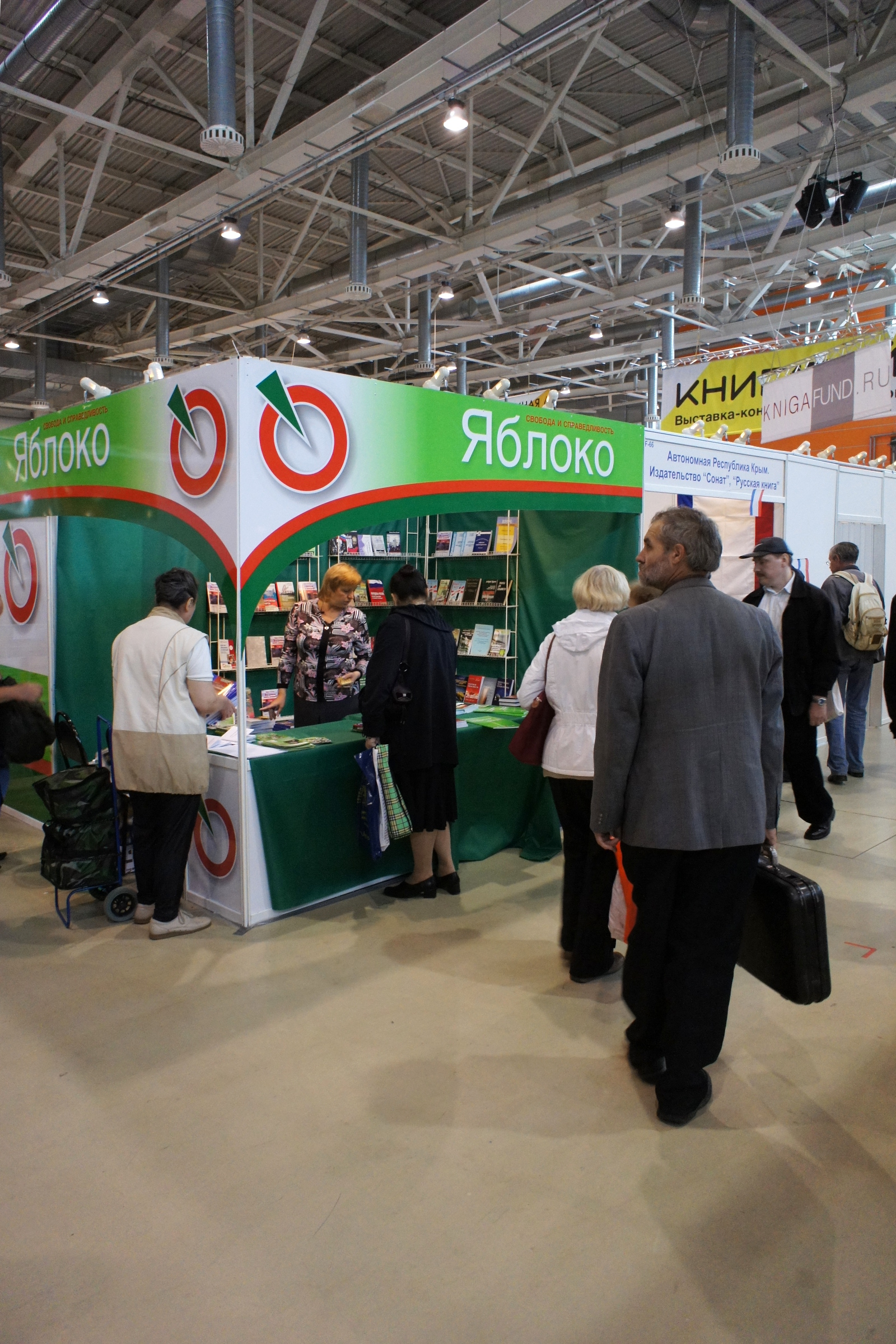 Moscow International Book Fair 2011. The booth of Yabloko Party.